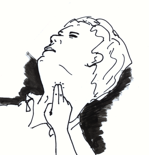 Carotidian pulse